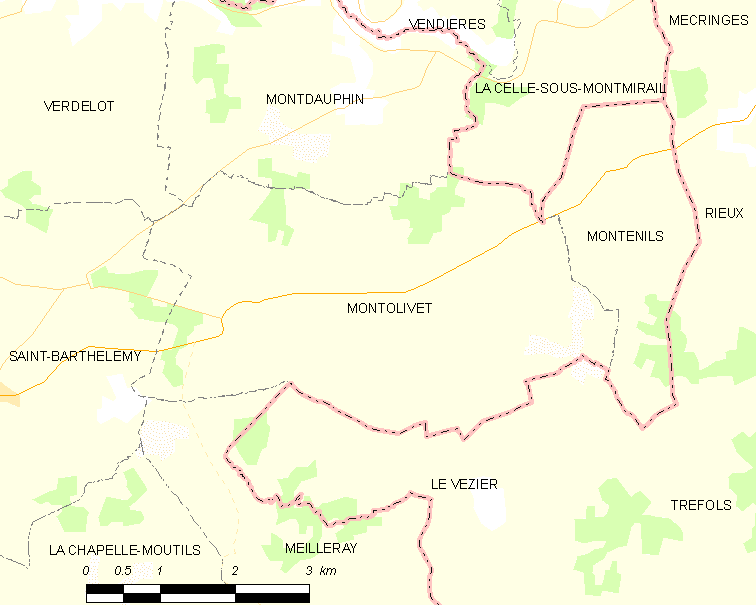 Map of French municipality Montolivet